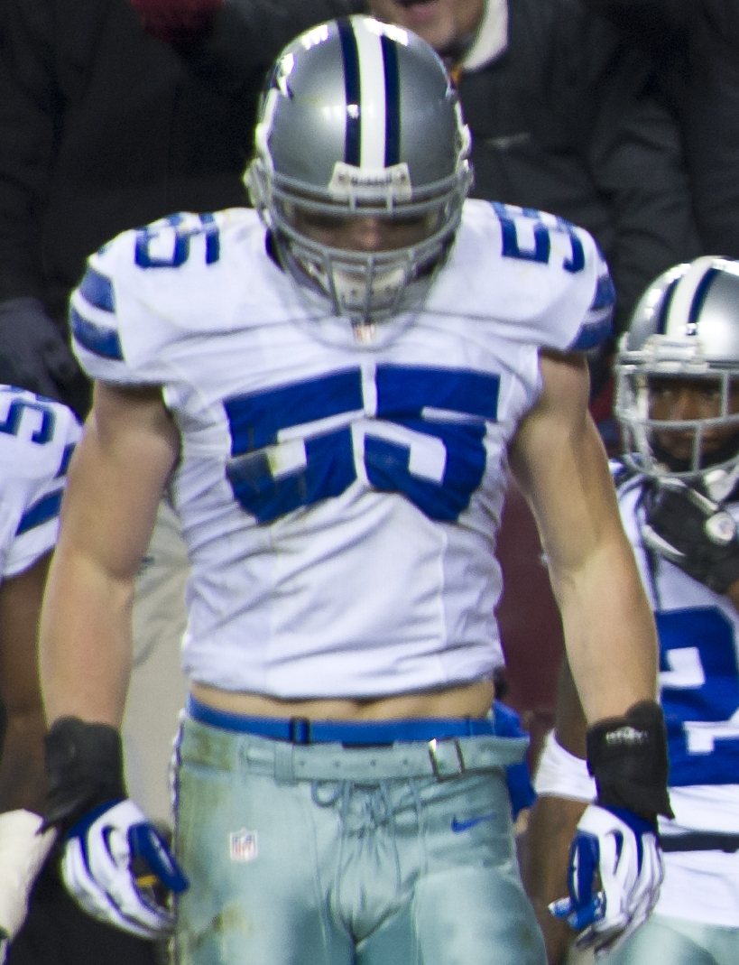 After a third-quarter touchdown run to put the Redskins in front of the Cowboys for good, Robert Griffin III, Redskins quarterback, is picked up by teammate, Logan Paulsen during the Washington Redskins and Dallas Cowboys game at FedEx Field in Landover, Md., Dec. 30, 2012. At a commerical break, troops were honored at the game by USAA in front of more than 82,000 fans. The Redskins won 28-18 to advance into the playoffs. (U.S. Army photo by Sgt. 1st Class Mark Burrell, Joint Public Affairs Support Element)